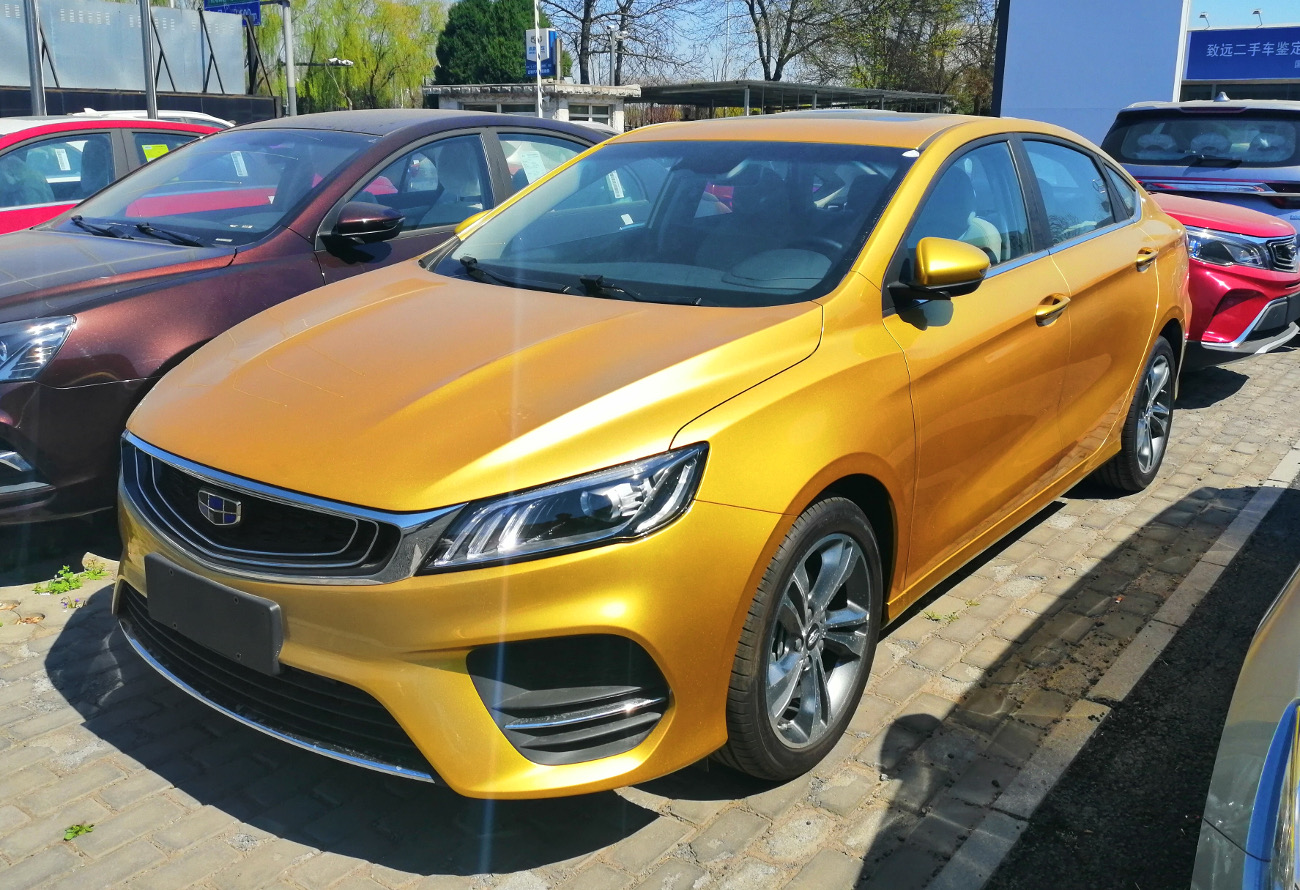 Geely Binrui photographed in Beijing, China.